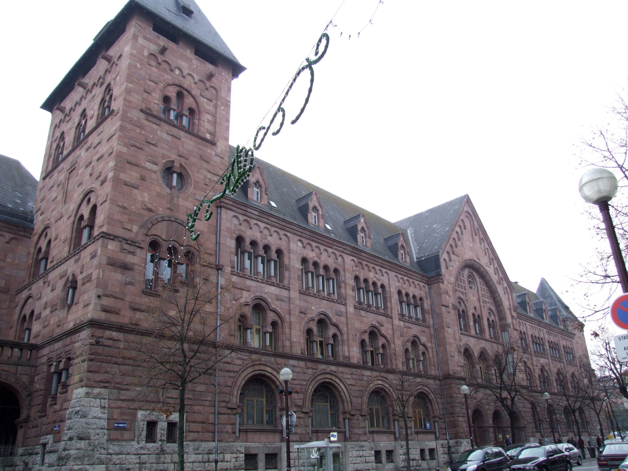 Metz, FRANCE